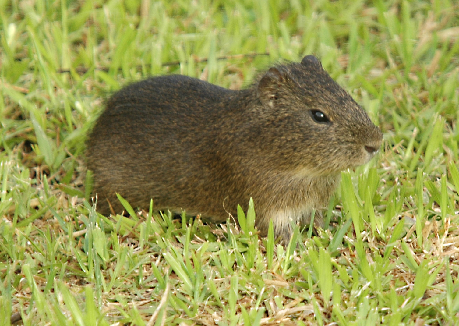 Cavia aperea, Iguazú National Park